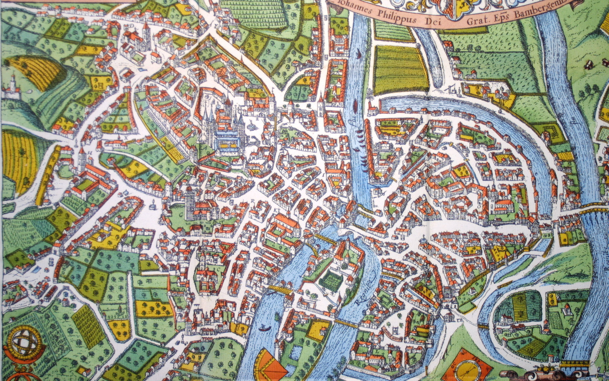 Bamberg